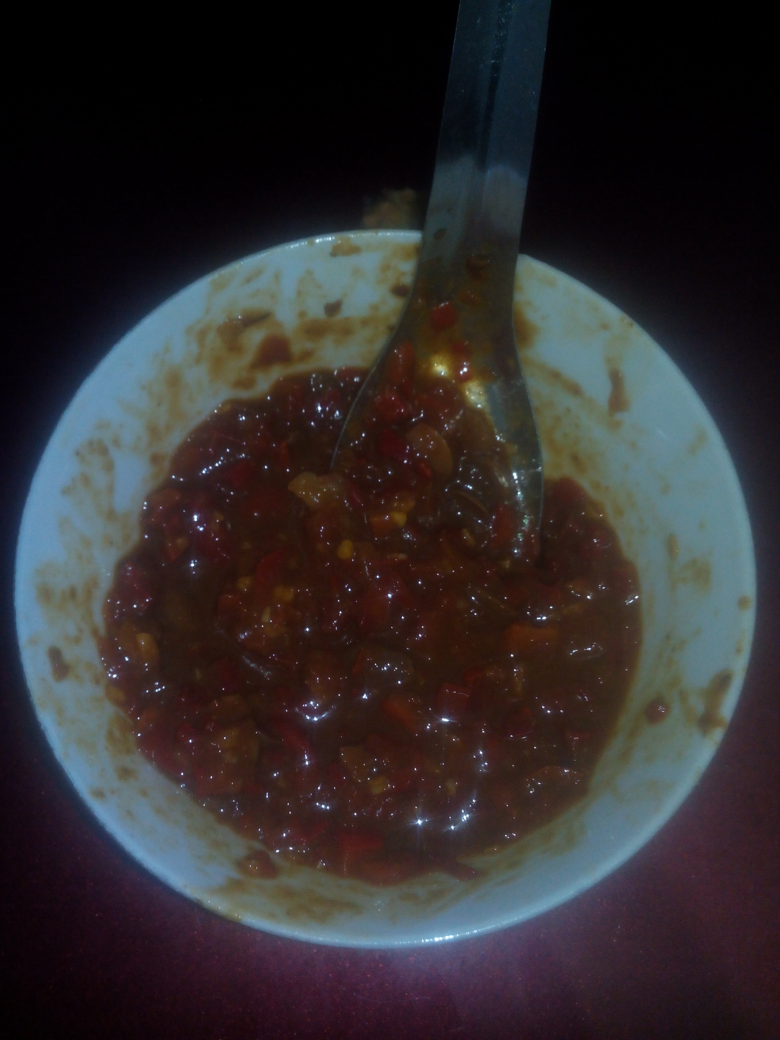 Hot doubanjiang made by myself